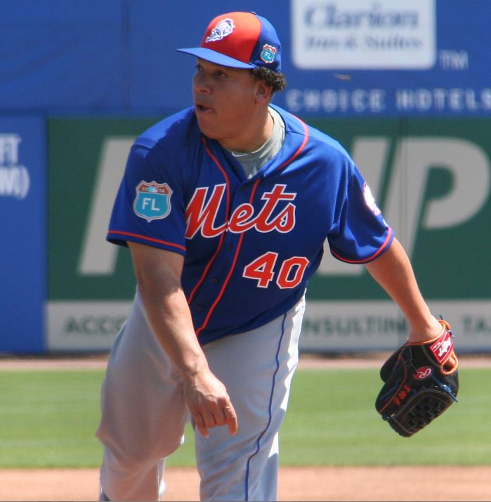 Another Colon